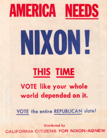 campaign item for 1968 Richard Nixon campaign, appears to be a small paper trash bag, for use in automobiles.